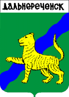 The Coat of Arms of Dalnerechensk (Primorsky krai), featuring a tiger.